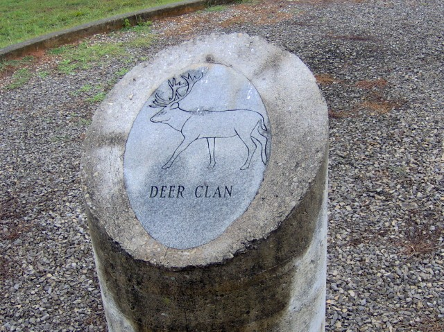 The Deer Clan pillar at the Chota Monument in Monroe County, Tennessee, in the southeastern United States. This pillar is one of eight pillars representing the seven Cherokee clans and the Cherokee Nation. The monument rests directly above Chota's ancient townhouse.